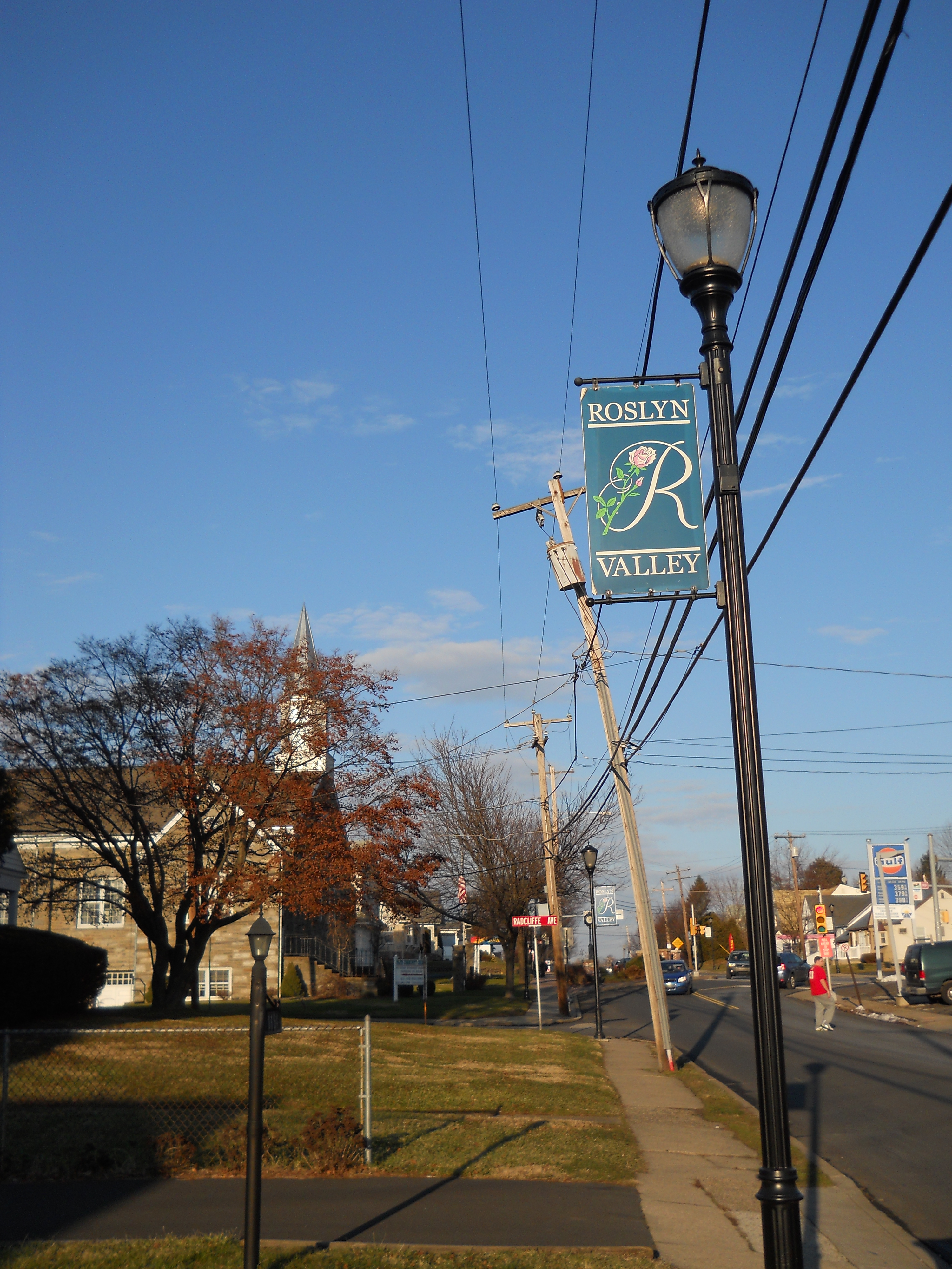 Roslyn, Montgomery County, PA. Bradfield Rd. and Faith Community Church.